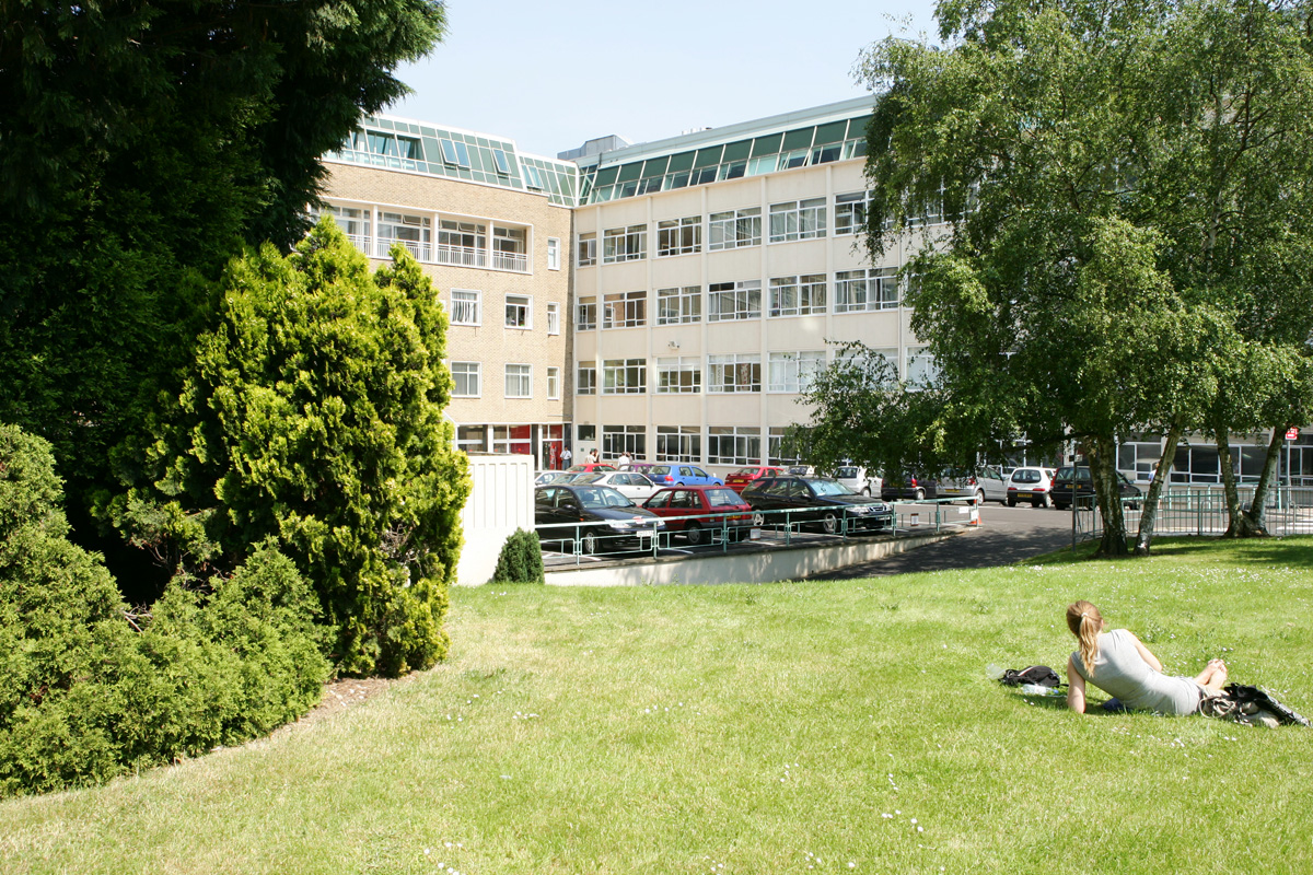 University of Bedfordshire's Luton campus